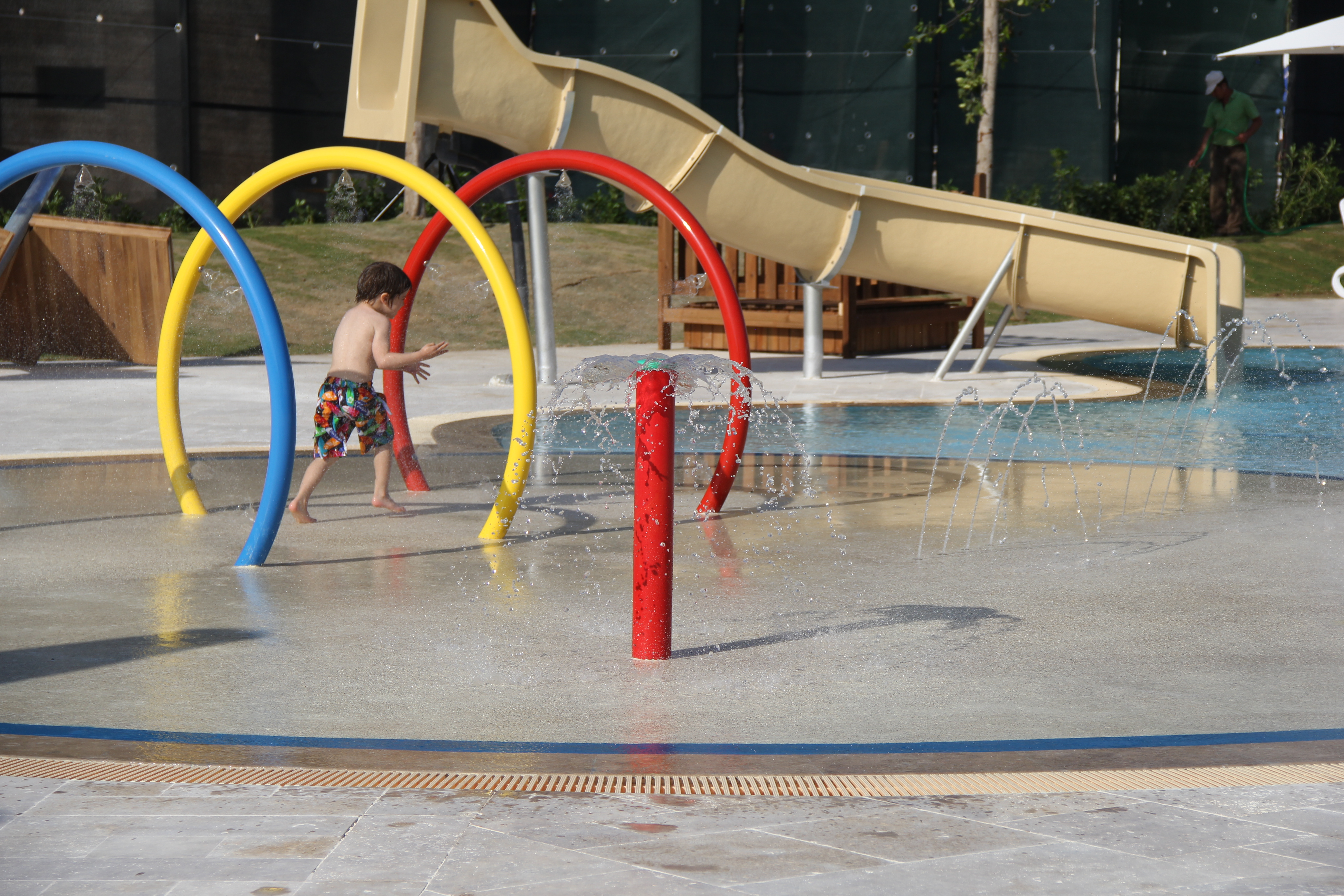 A small splash pad which was designed by Aquatronic ( in Antalya,Turkey